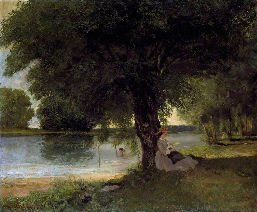 The Charente at Port-Berteau, oil on canvas (54×62 cm) painted in 1862 by Gustave Courbet and exposed for the first time in Saintes in 1863. This painting shows a woman sitting next to a tree, nearby the river Charente, ina place named Port-Berteau (Bussac-sur-Charente, France). This painting is currently located in the Fitzwilliam Museum of Cambridge (United Kingdom).